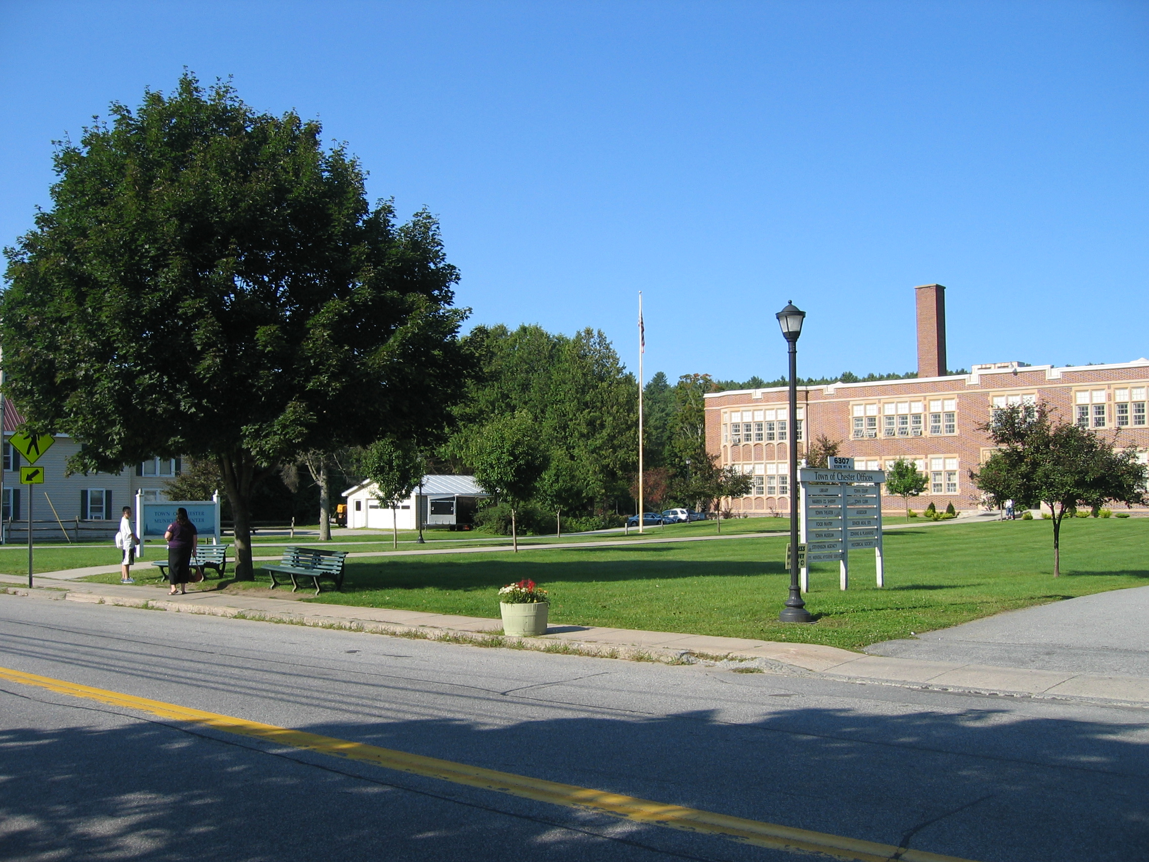 Town of Chester Municipal Center, Chestertown, New York. Česky: Radnice a komunitní centrum v Chestertown, New York.